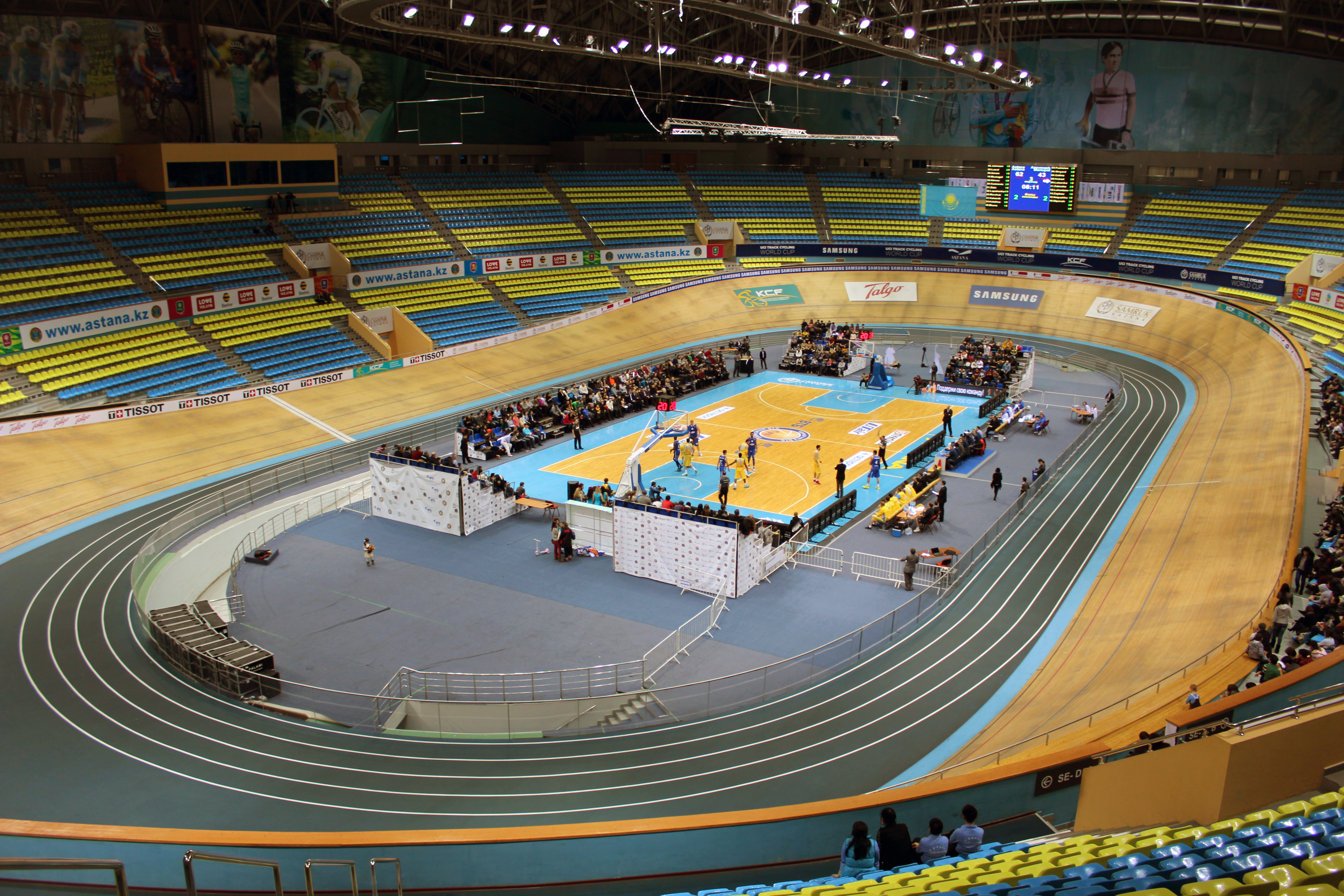 Saryaraka Velodrome during a basketball game.